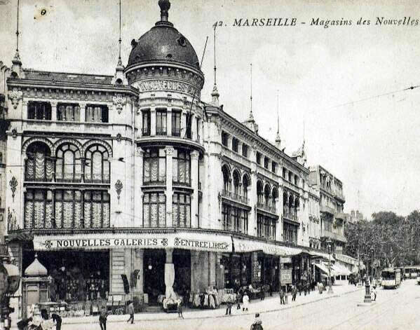 Les Nouvelles Galeries in Marseille, before 1938.